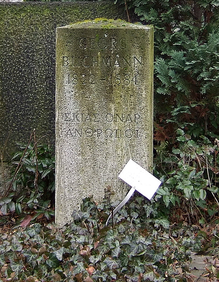 Tomb of Georg Büchmann in Berlin